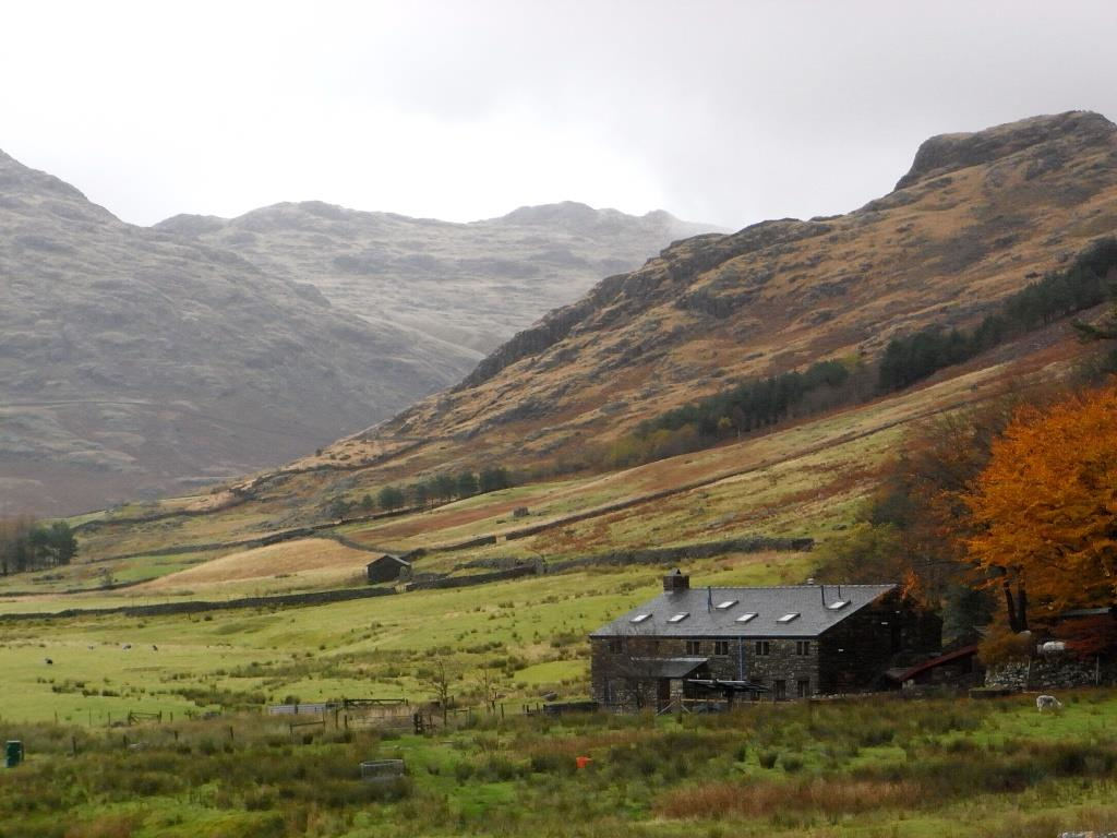 Low Bank Ground Brathay Trust